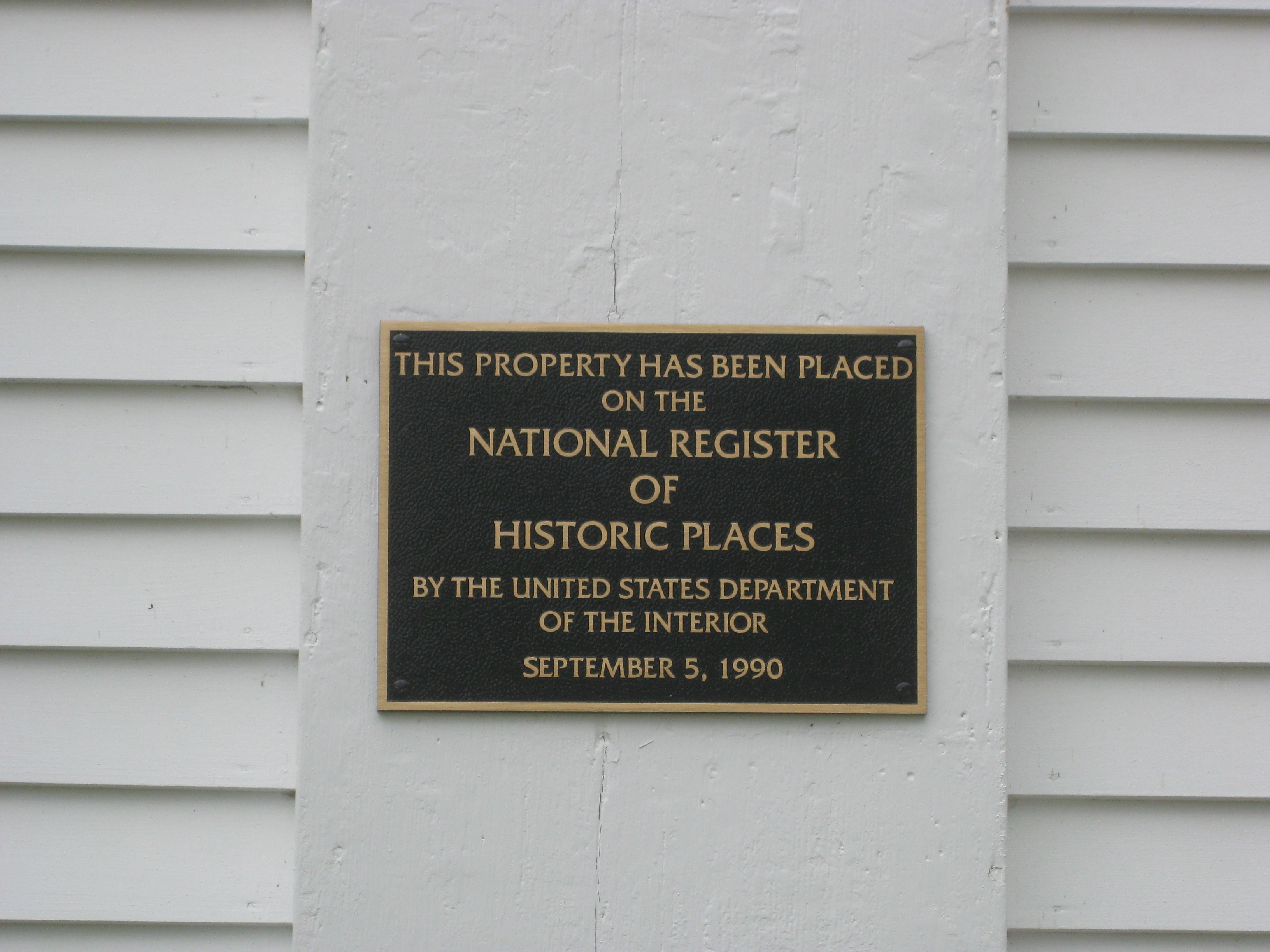 Proof that Loudon Town Hall is on the National Register of Historic Places